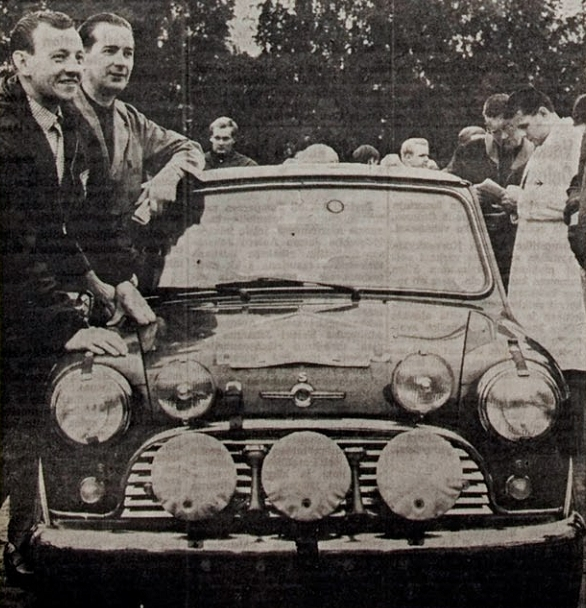 Rauno Aaltonen and co-driver Anssi Järvi before the final day of the 1965 1000 Lakes Rally (Rally Finland).